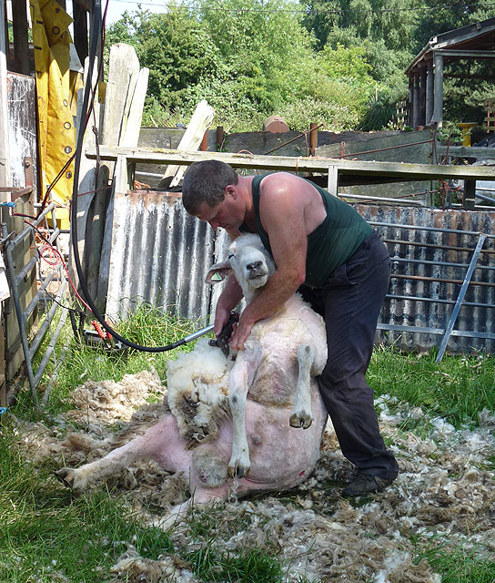 Sheep-shearing: down the flanks The sheep is under the shearer's control once it is sat on its rear; it is still, however, a heavy weight to shift and turn as the shearing progresses. For the whole series summarised, see 6975792 or for members